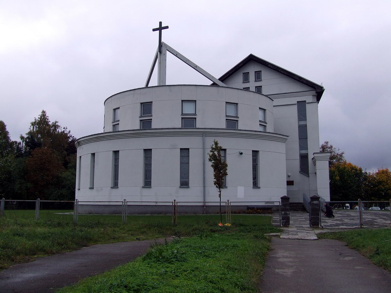 Pal. arkivyskupo Jurgio Matulaičio church. Kaunas, Lithuania.